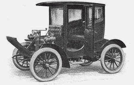 1905 Adams Farwell Model No. 6 Convertible Brougham . This was the only model in 1905 from this small and highly individual automobile manufacturer. "convertible" on this car is not the Roof, but the front pan, that opens to provide an additional seat. Engine is a 20/25 hp 3 cylinder Rotary engine mounted horizontylly (with the crankshaft stand vertical) at the rear. The vehicle vost $2500; Slogan was "It spins like a top".